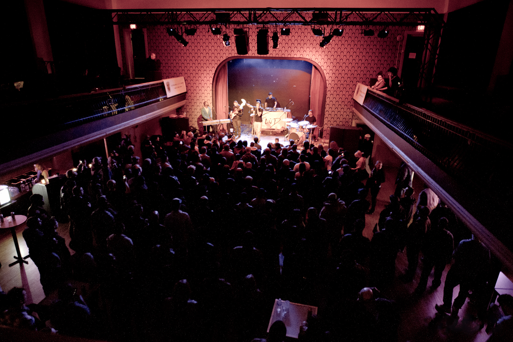 Black Milk performing at the Great Hall on Queen Street West, Toronto, Ontario, Canada